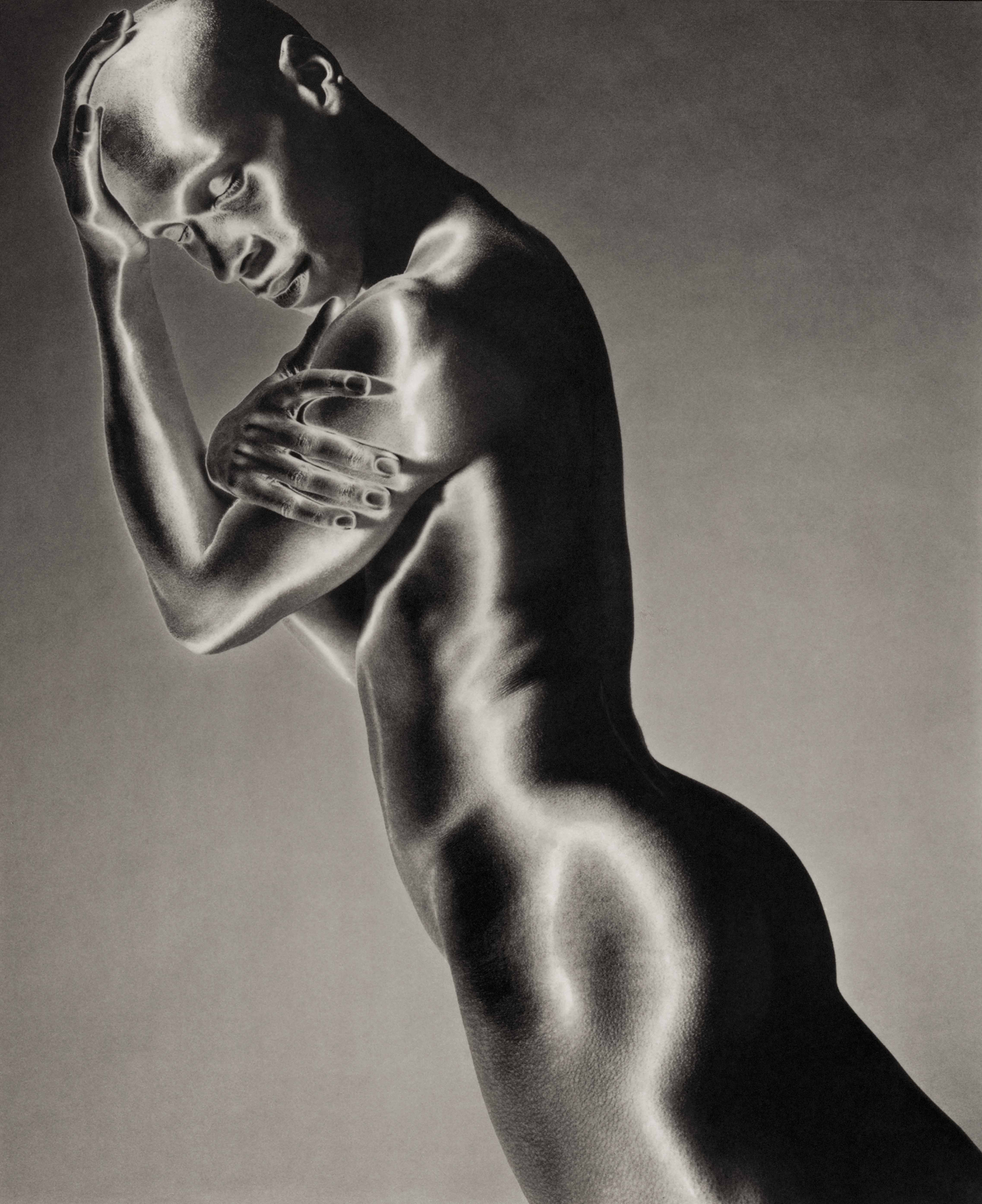 Solarised Platinum Ben Linaeus